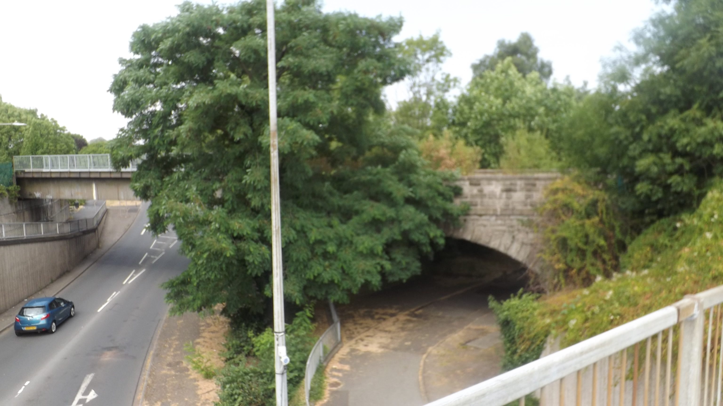 My own.